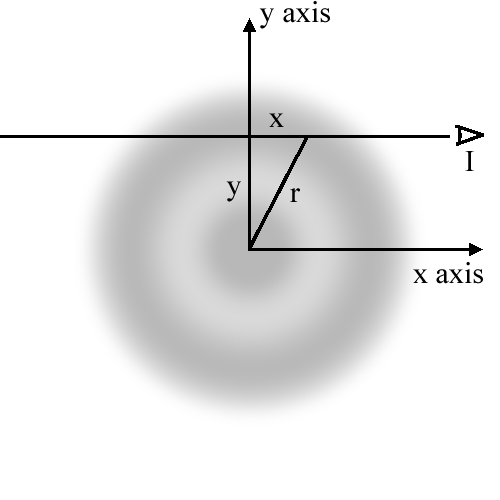 Geometry of the Abel transform in two dimensions